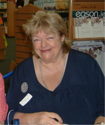 I took this image myself at a book signing in Dublin city.